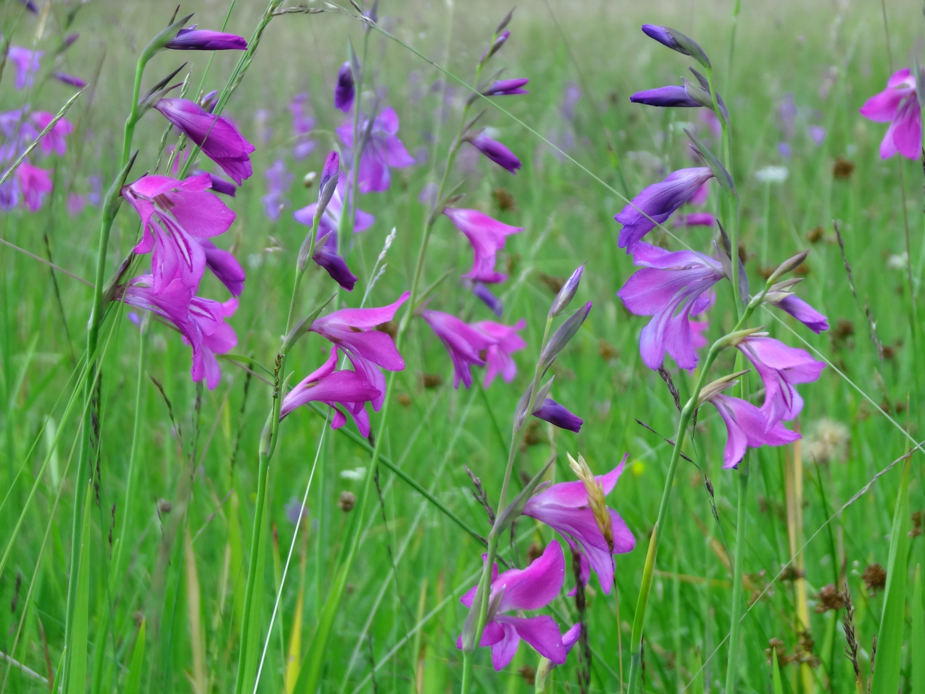 Gladiolus palustris, Salzburg (state), Austria